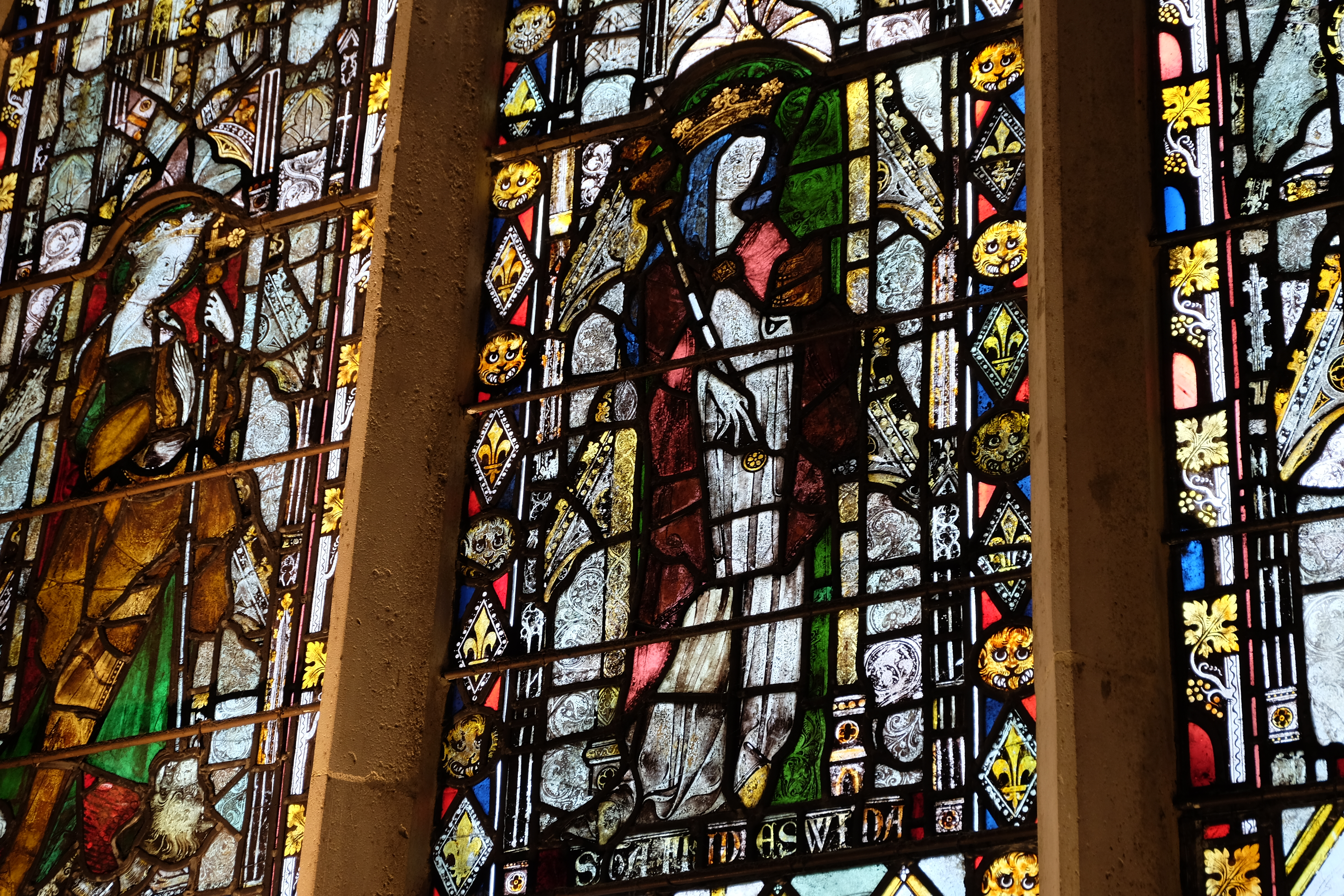 Section from 14th-century stained-glass window in the Latin Chapel of Christ Church Cathedral, Oxford, depicting St. Margaret with dragon, cross and palm; St. Frideswide with book and sceptre